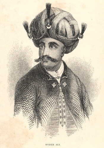 Hyder Ali, ruler of Mysore, engraving by William Dickes (1815-1892), first published in 1846 source